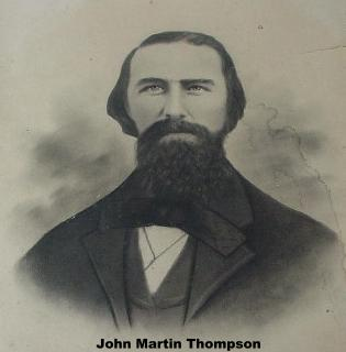 John Martin Thompson, Leader of the Mount Tabor Indian Community; Founder of Thompson & Tucker Lumber Company. Rusk County, Texas